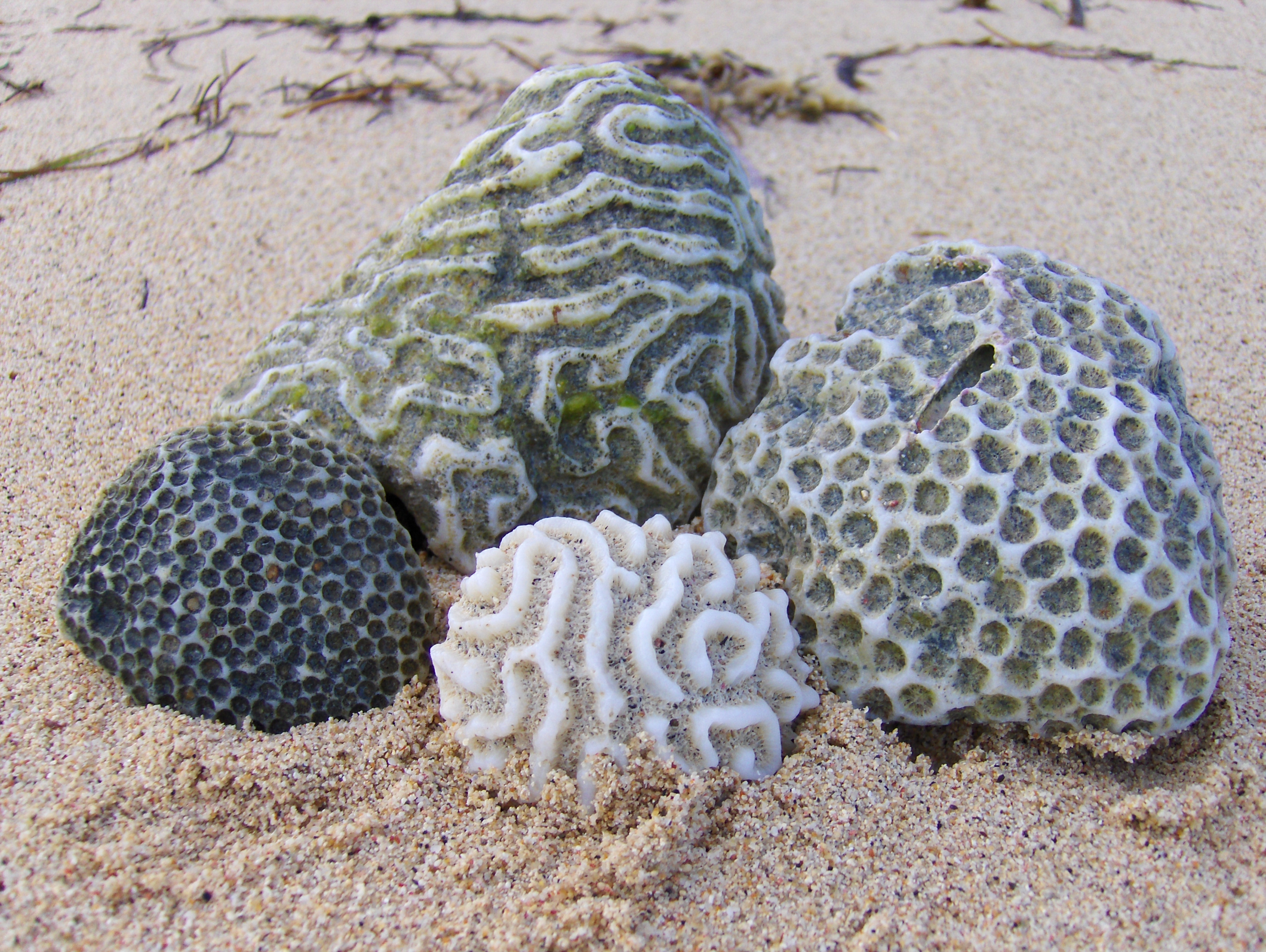 Coral rocks, found washed up on the beach.